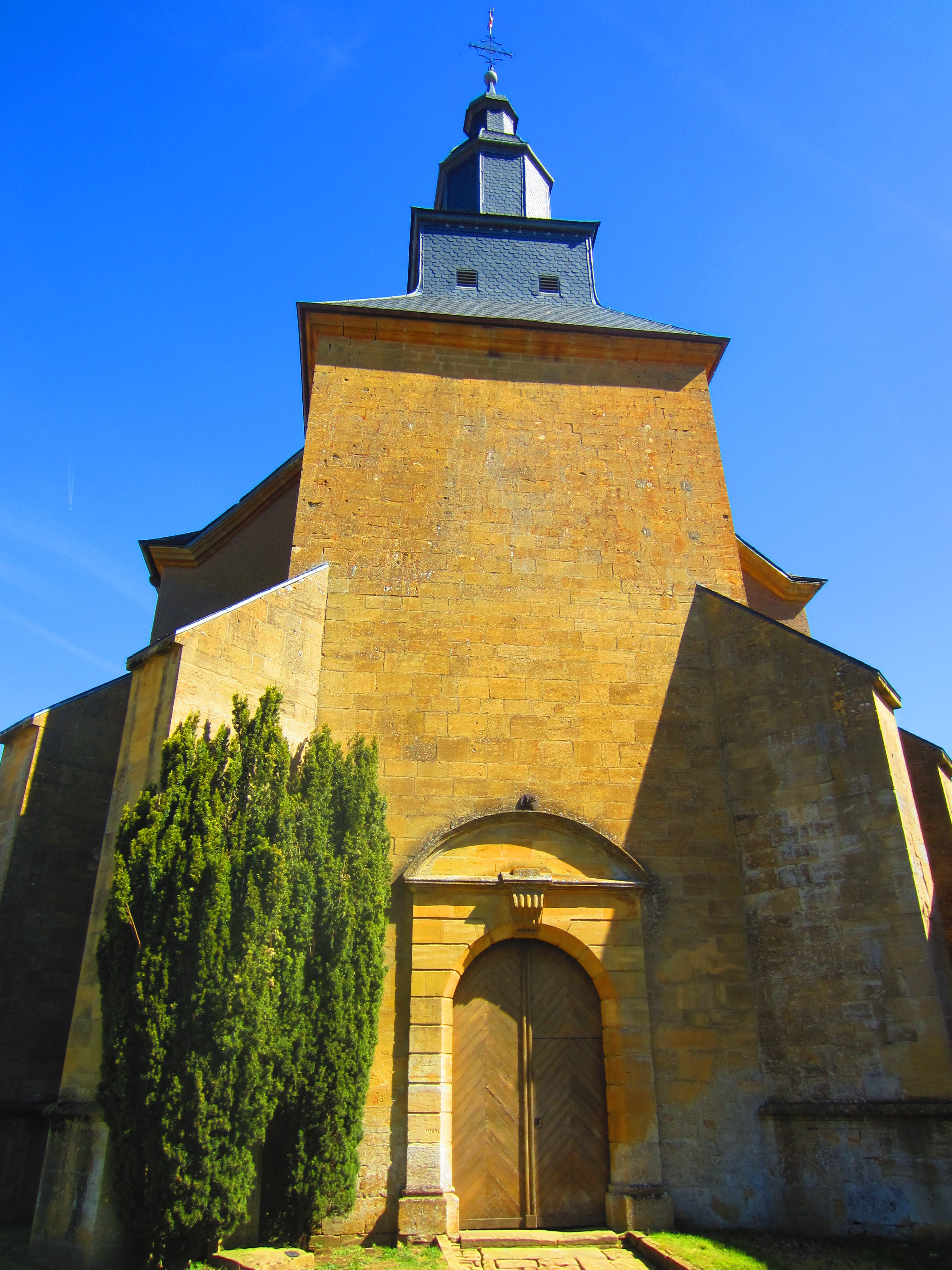 Cons-la-Grandville church